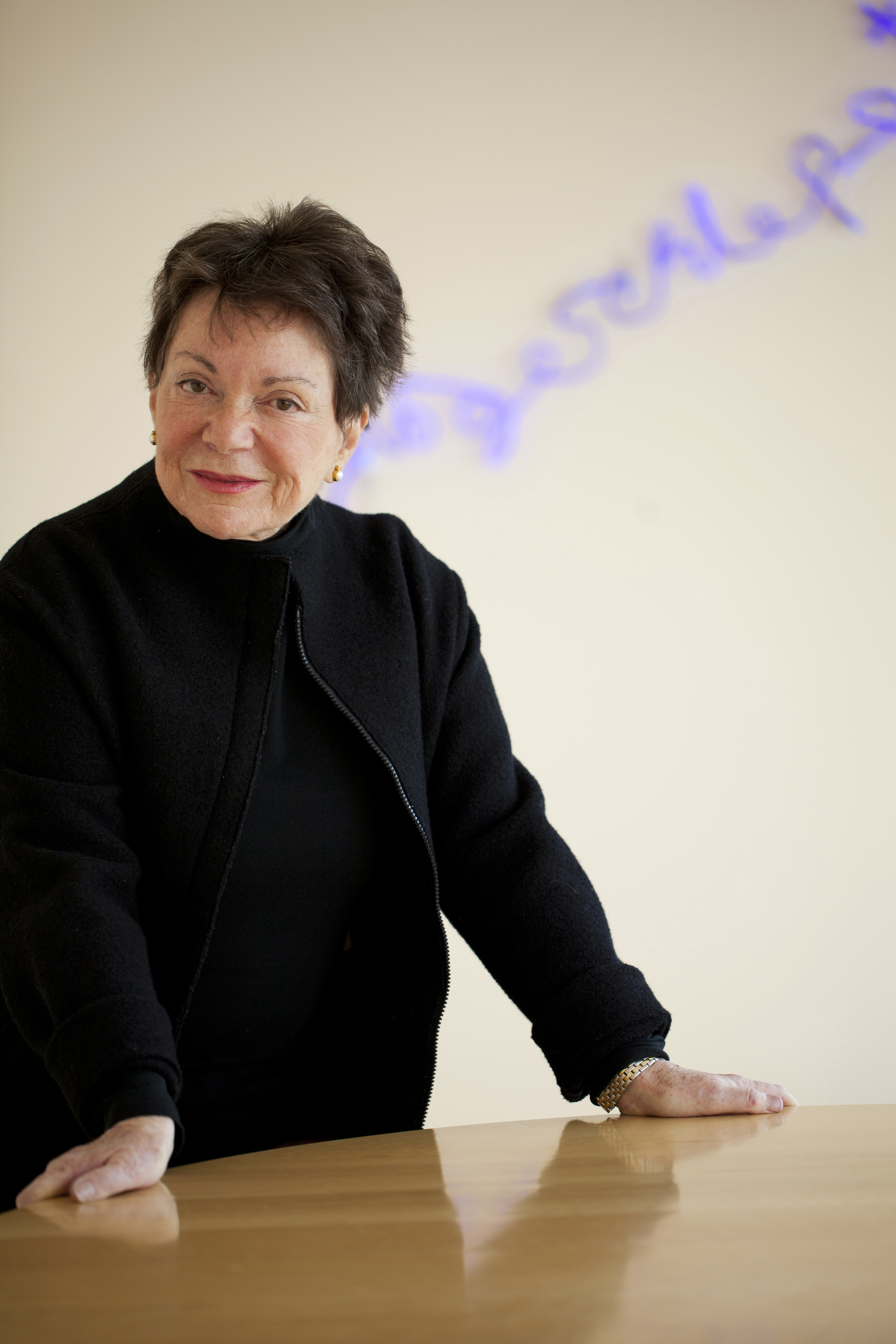 Madelin Coit Born – 1943, Connecticut Nationality - American Education – University of Connecticut Known for - Artwork